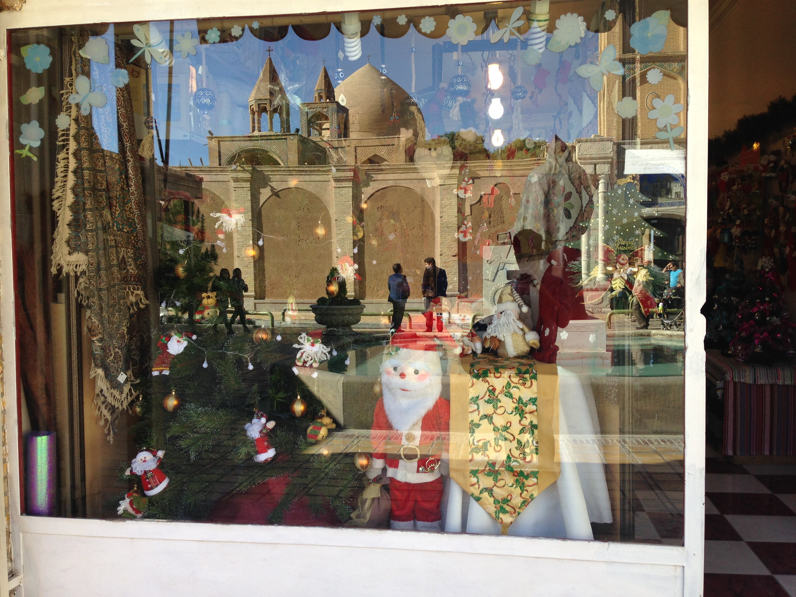 Christmas shop in front of the Holy Savior Catheral, New Julfa, Isfahan